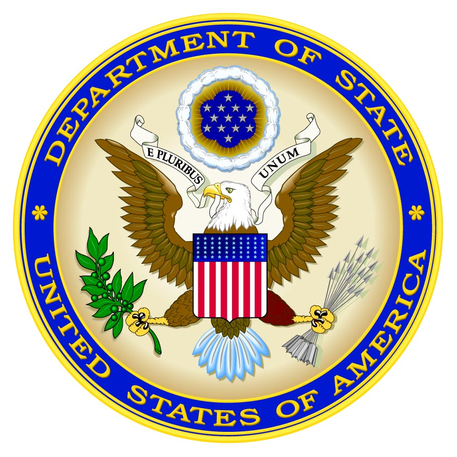 Seal of the United States Department of State.